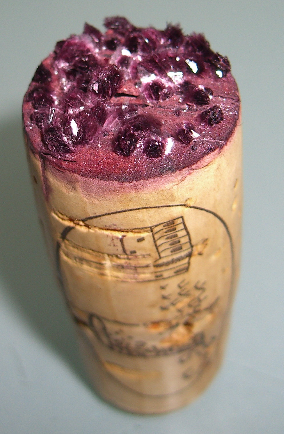 Potassium bitartrate on a cork stopper